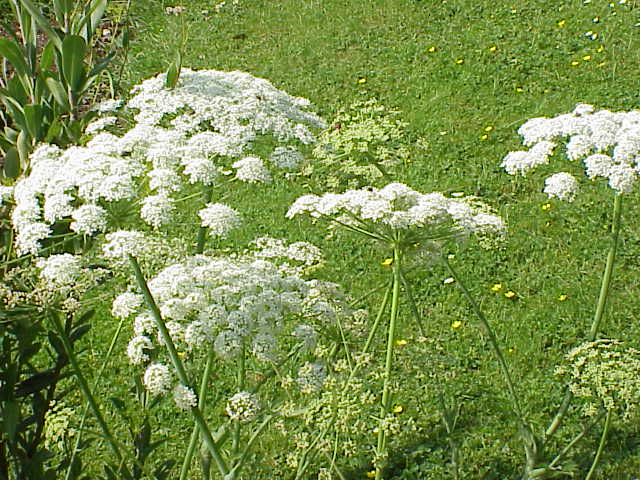 Species: Laserpitium latifolium Family: Apiaceae Image No. 4